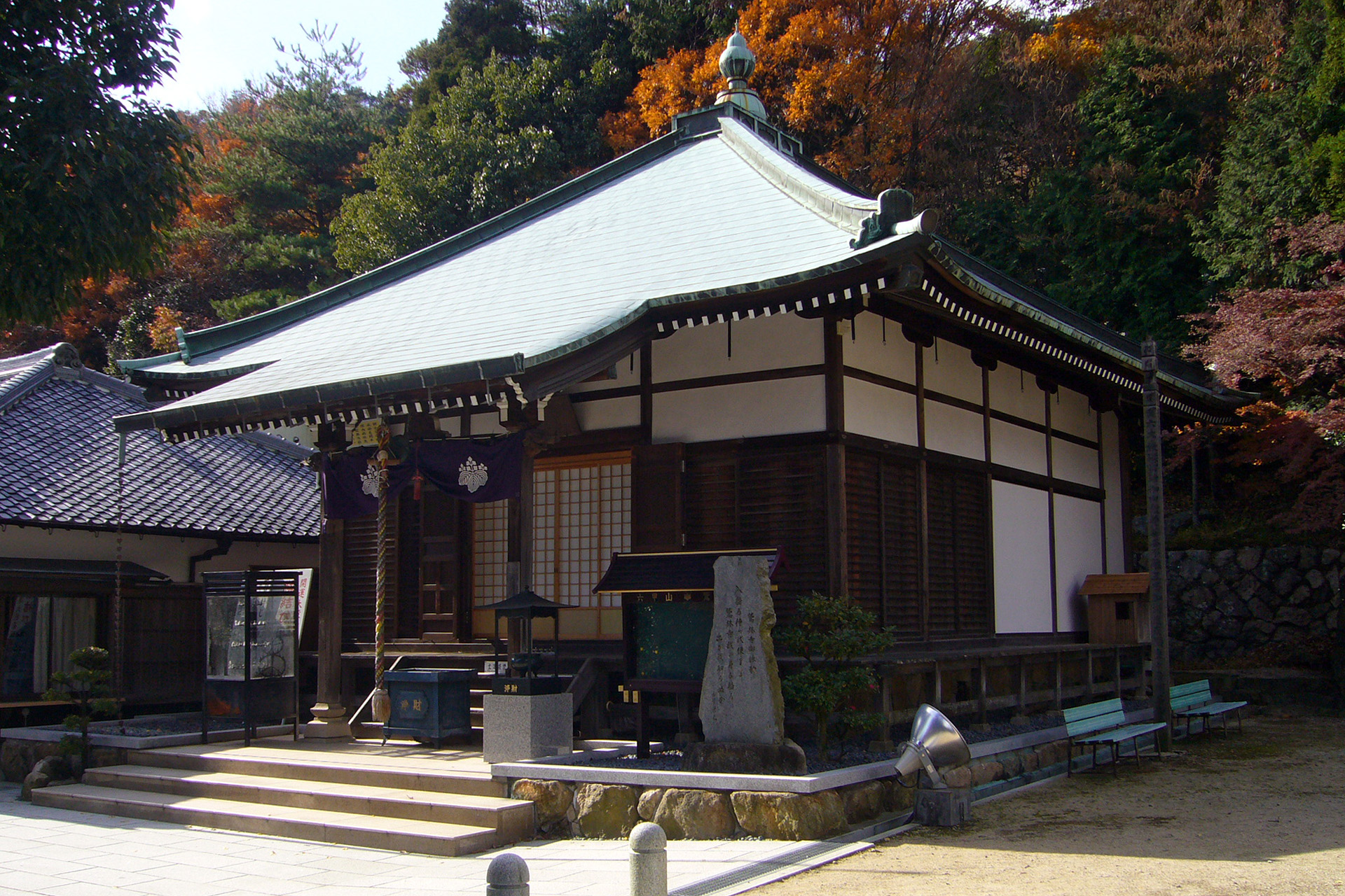 Jurinji in Nishinomiya, Hyogo prefecture, Japan